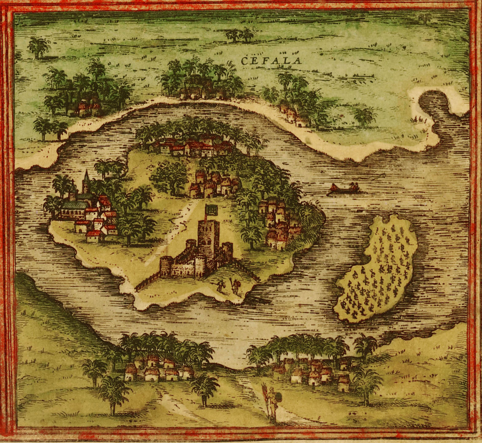 Cefala - bird's-eye view of the city of Sofala (Mozambique) from Georg Braun and Franz Hogenberg's atlas Civitates orbis terrarum, vol. I, 1572